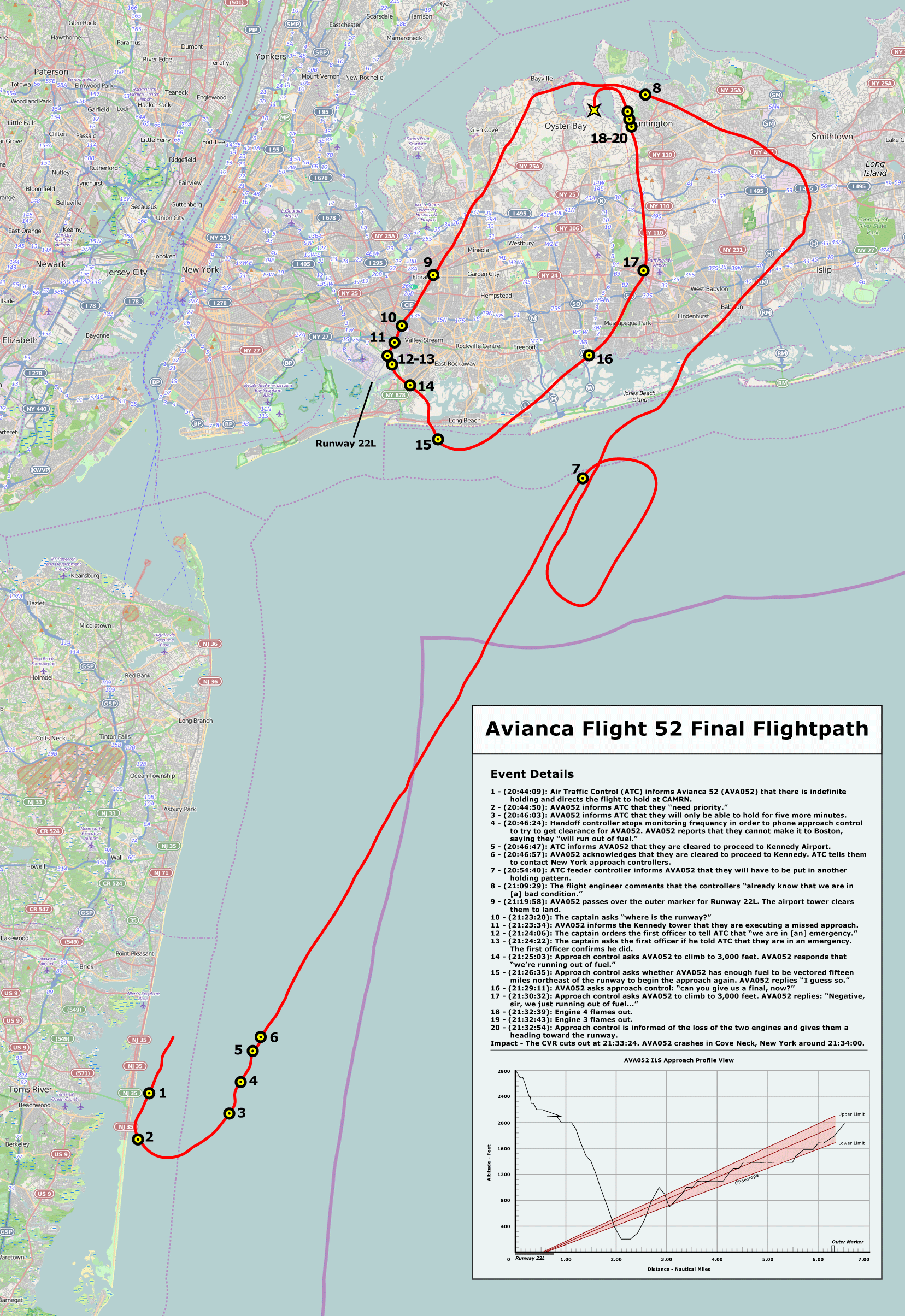 Map of the final leg of Avianca Flight 52. The flightpath is marked in red. Significant events are marked in yellow-and-black bulls-eyes and numbered. The legend includes descriptions of all events as well as a profile graph of the flight's failed ILS approach.